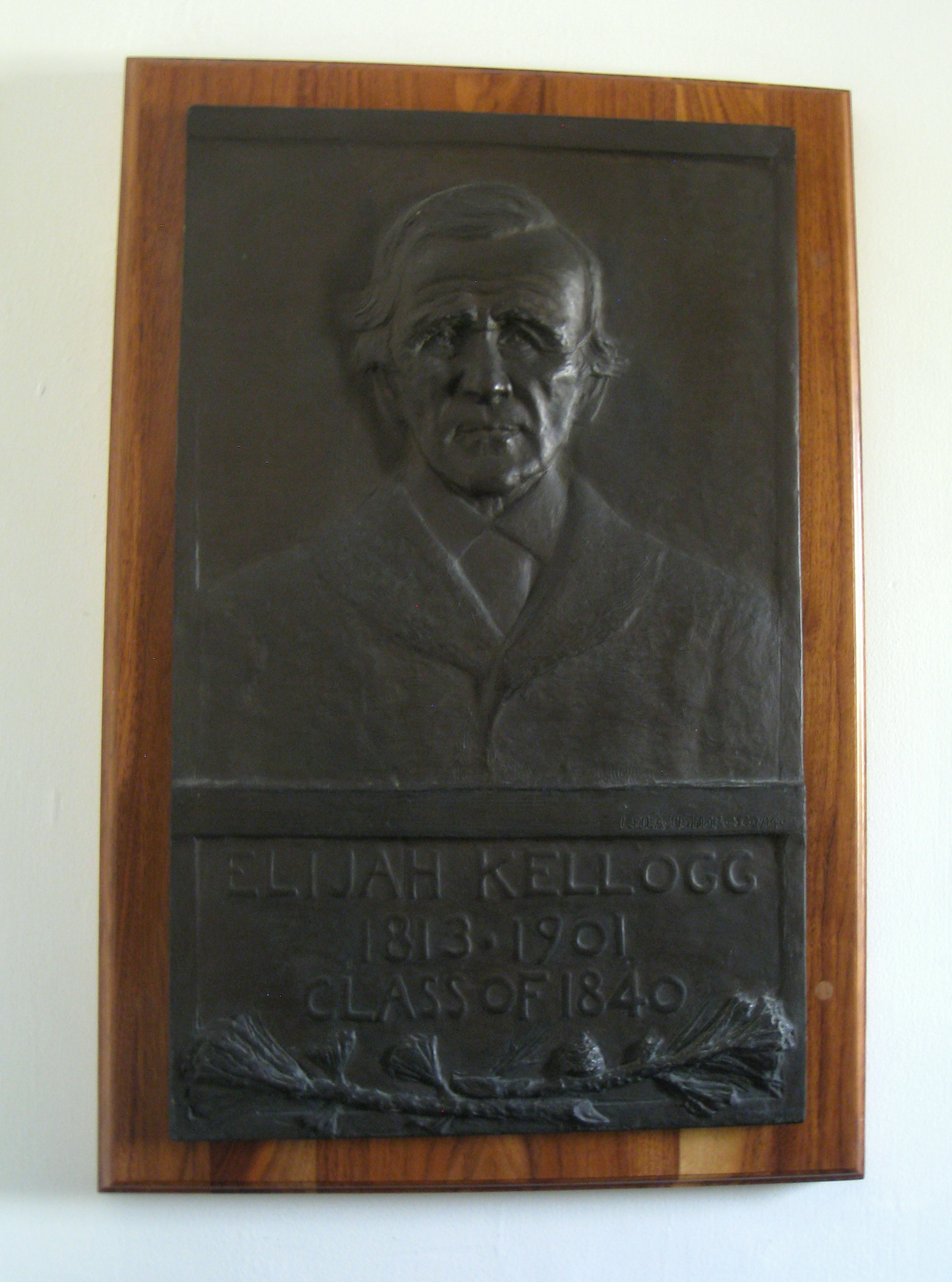 Bowdoin College Chapel, Bowdoin College, Brunswick, Maine, USA. Memorial plaque to Elijah Kellogg, Jr. (May 20, 1813 - March 17, 1901), an American Congregationalist minister, lecturer and author of popular boy's adventure books.